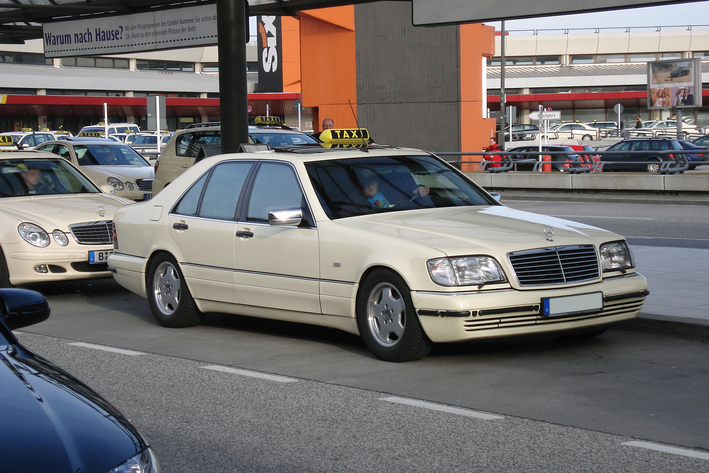 Mercedes S-Class (W140) Taxi at Airport Berlin-Tegel (TXL)